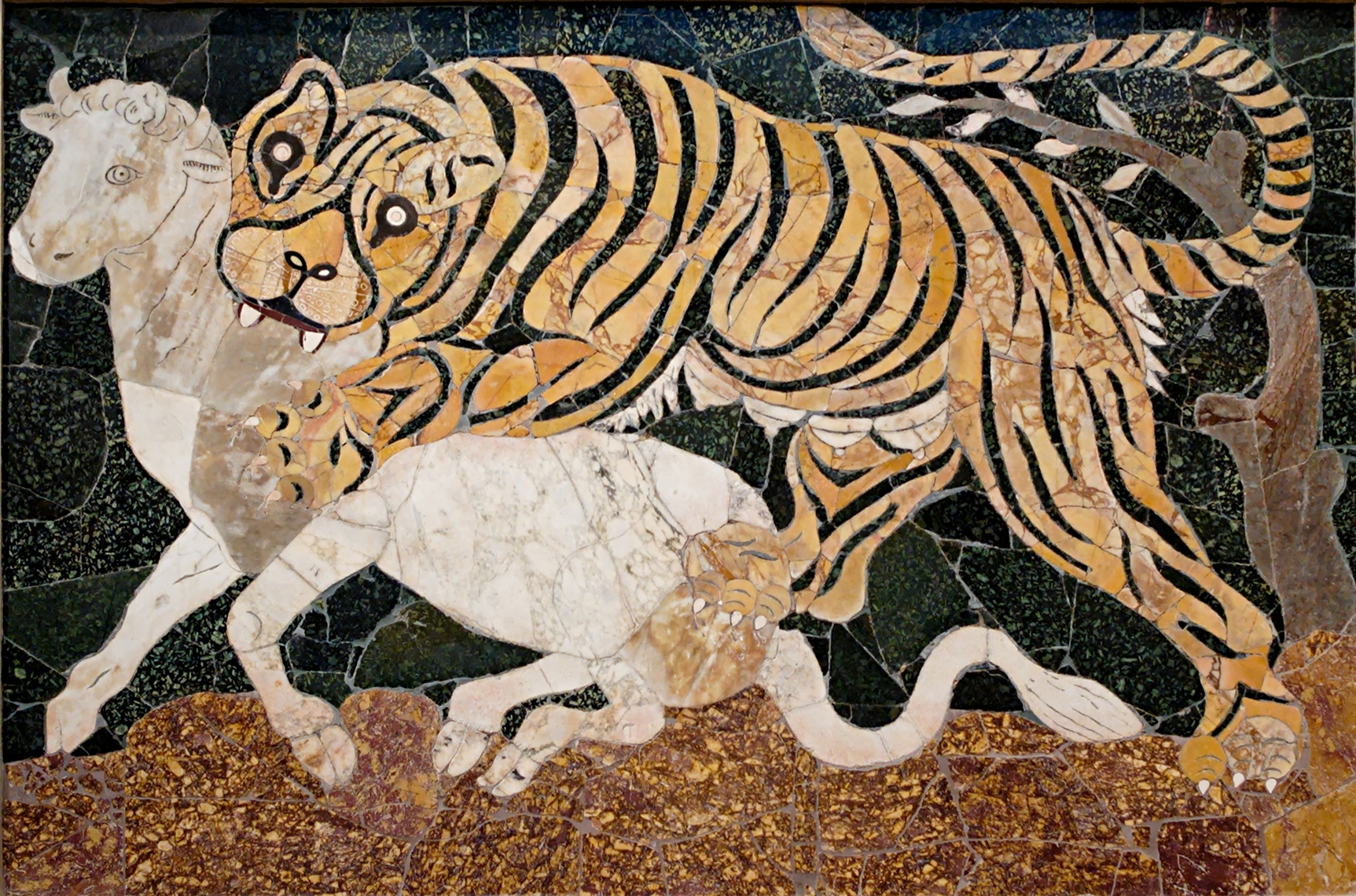 Opus sectile panel: tiger attacking a calf. Coloured marbles, Roman artwork from the second quarter of the 4th century CE. From the basilica of Junius Bassus on the Esquiline Hill.